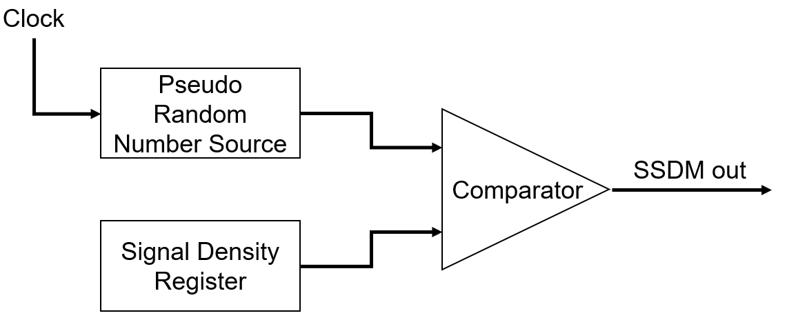 Block diagram from SSDM signal generation.